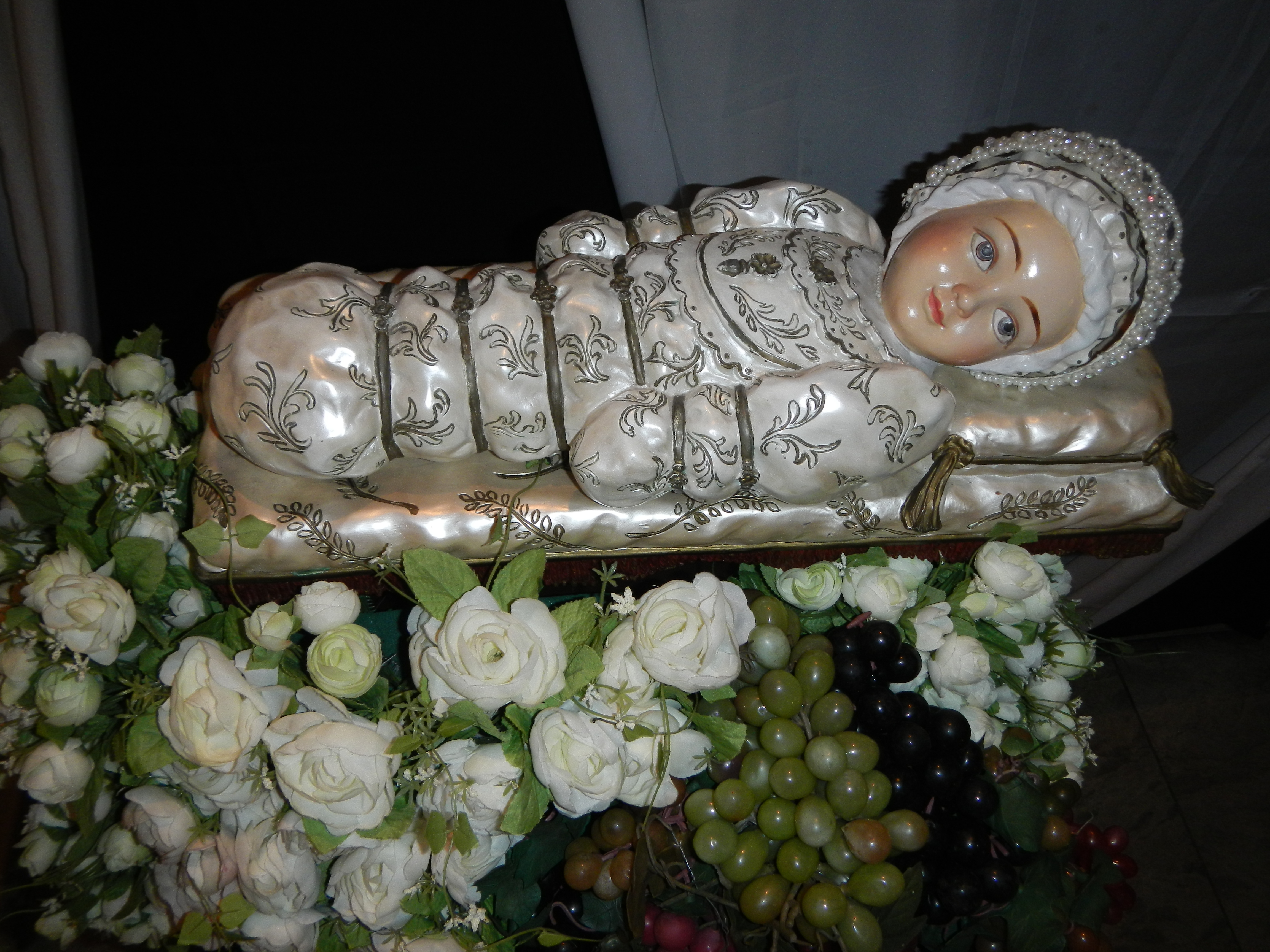 15th Grand Marian Exhibit, May 4-20, 2013 at the Museo Valenzuela[1] ( is Valenzuela city's[2] historical and cultural landmark, named after Dr. Pío Valenzuela[3] in 1963. Museo Valenzuela features collections of artifacts depicting the city's past and continuing development, it also serves as a repository of the city's rich heritage and a beacon of light to its people and guests. It is likewise a venue for historical, cultural, and artistic presentations as well as seminars and symposia on national and local issues. It is located in Valenzuela City, [4] Metro Manila, Philippines.)[5] - Parish of the National Shrine of Our Lady of Fatima[6][7] [8] Website, Valenzuela City The Marian Exhibit is part of the National Shrine of Our Lady of Fatima [9] The National Shrine of Our Lady of Fatima (Filipino: Pambansang Dambana ng Birhen ng Fatima) is a Philippine apostolate of Our Lady of Fatima in Fátima, Portugal which is recognized by the Philippine Roman Catholic Church. The shrine is located inside the Our Lady of Fatima University campus in Marulas, Valenzuela City. The shrine is declared as one of the three major pilgrimage site aside from the National Shrine of St. Anne in Hagonoy and the National Shrine of Divine Mercy in Marilao.